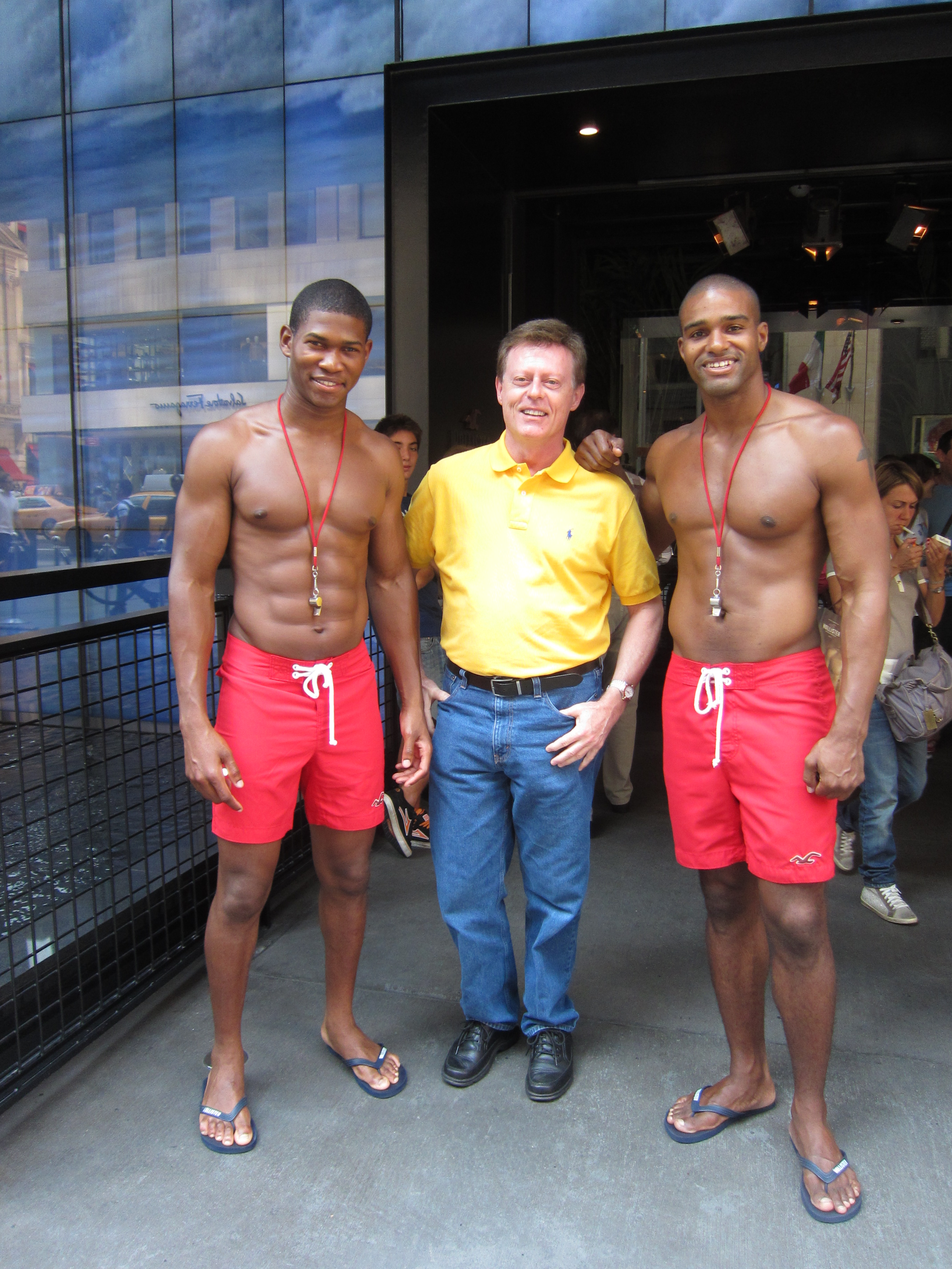 Labor Day Weekend - August 30 to Sept. 2, 2012